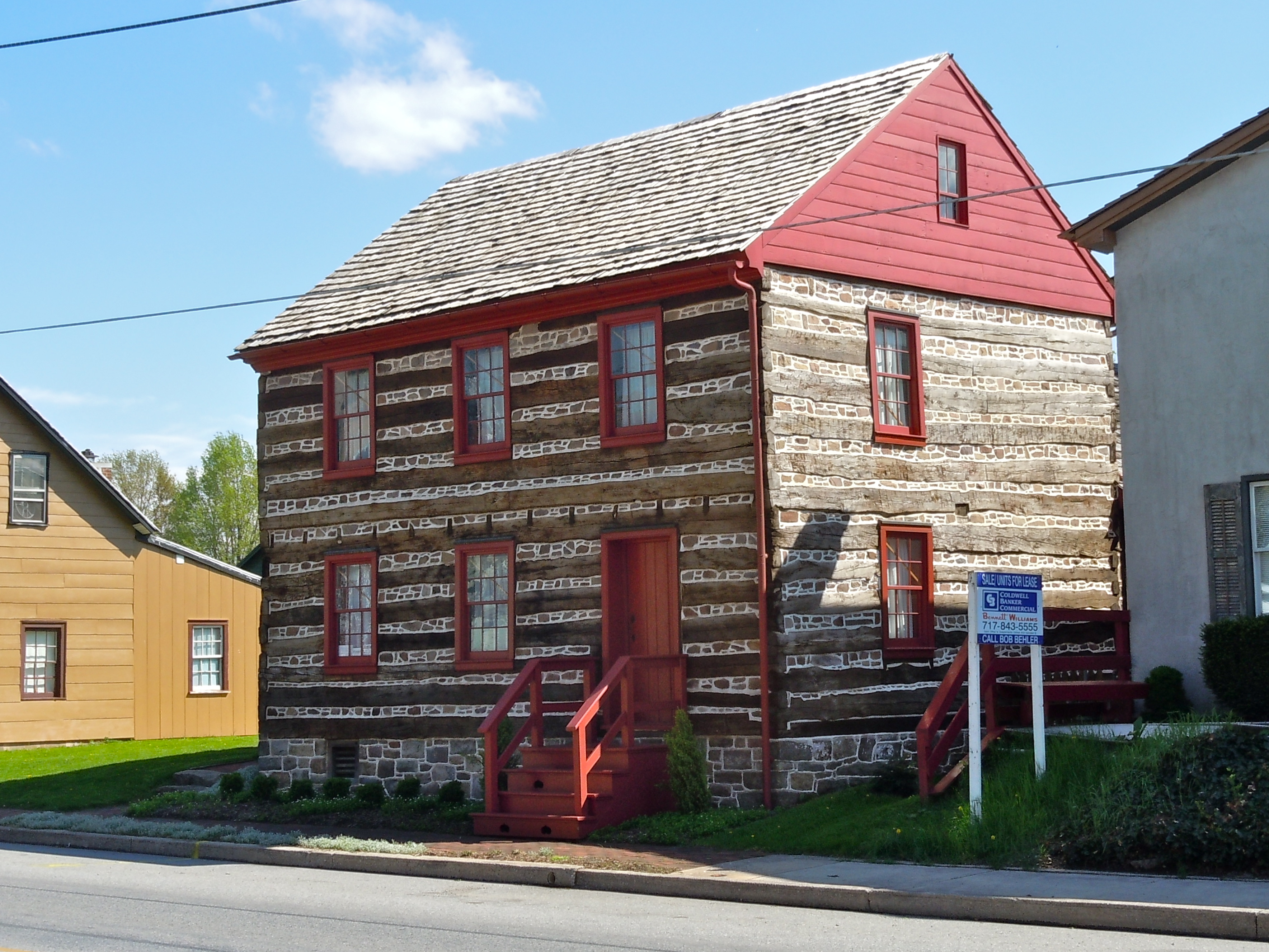 Log cabin in East Berlin, Pennsylvania (no typo), with stone placed between the logs. Workman on site said he heard it was built 1770 FWIW. Part of the East Berlin Historic District in East Berlin, Adams County, Pennsylvania, which has been on the NRHP since September 30, 1985. The HD includes portions of King, Harrisburg, and Abbottstown Streets.